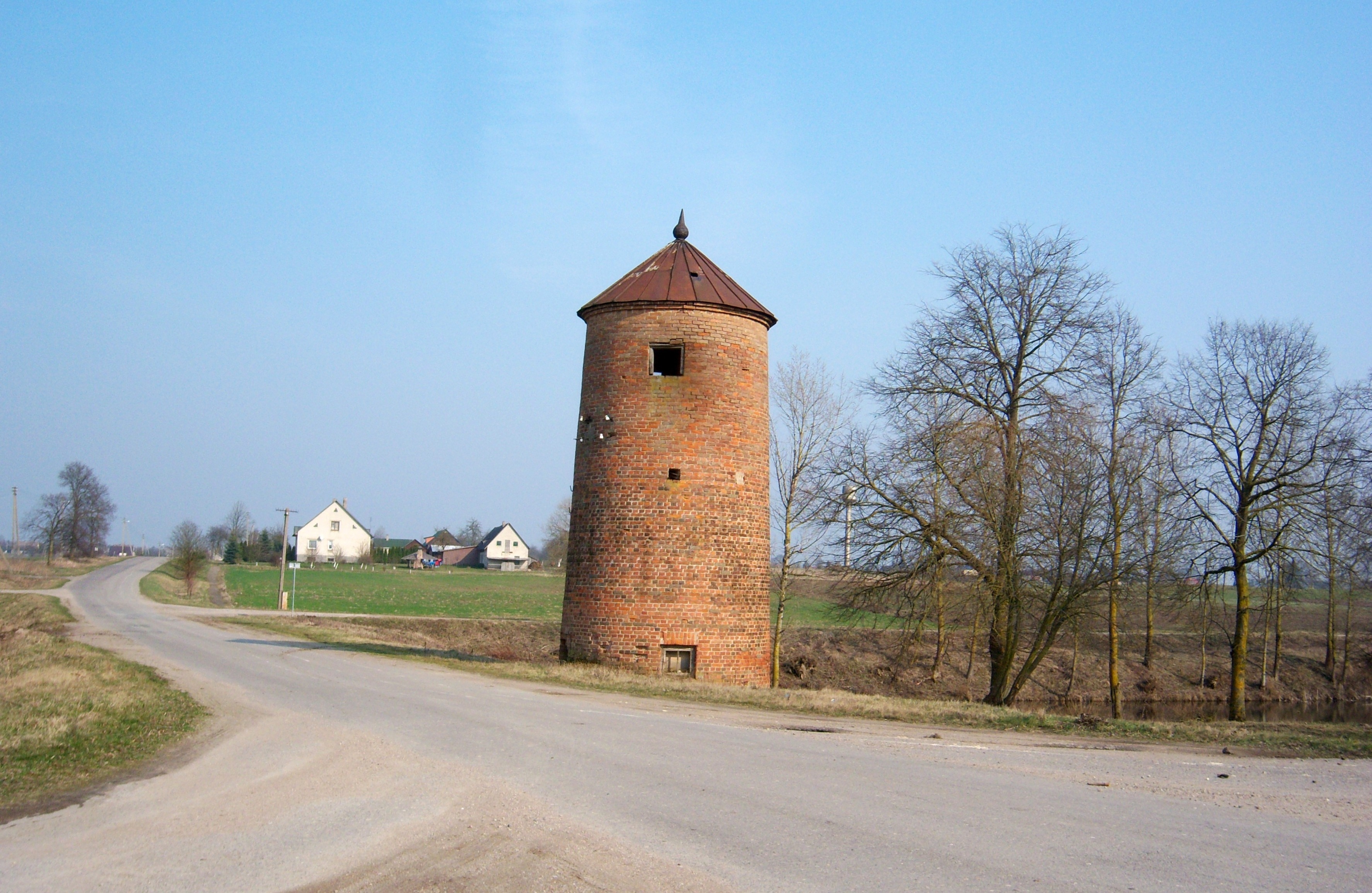 Saulėtekiai, Kaunas district, Lithuania